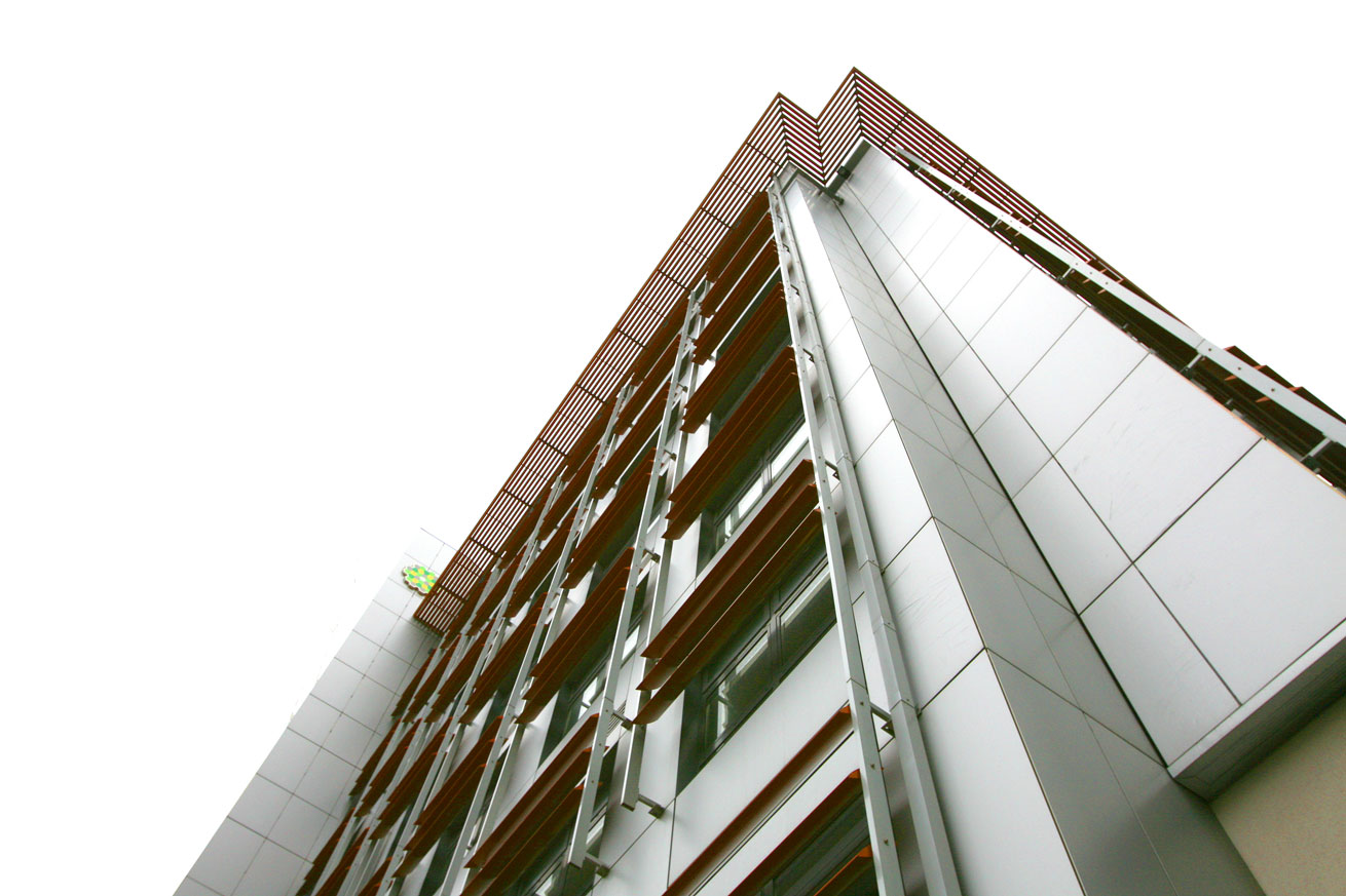 Picture of HM Land Registry Office, Croydon